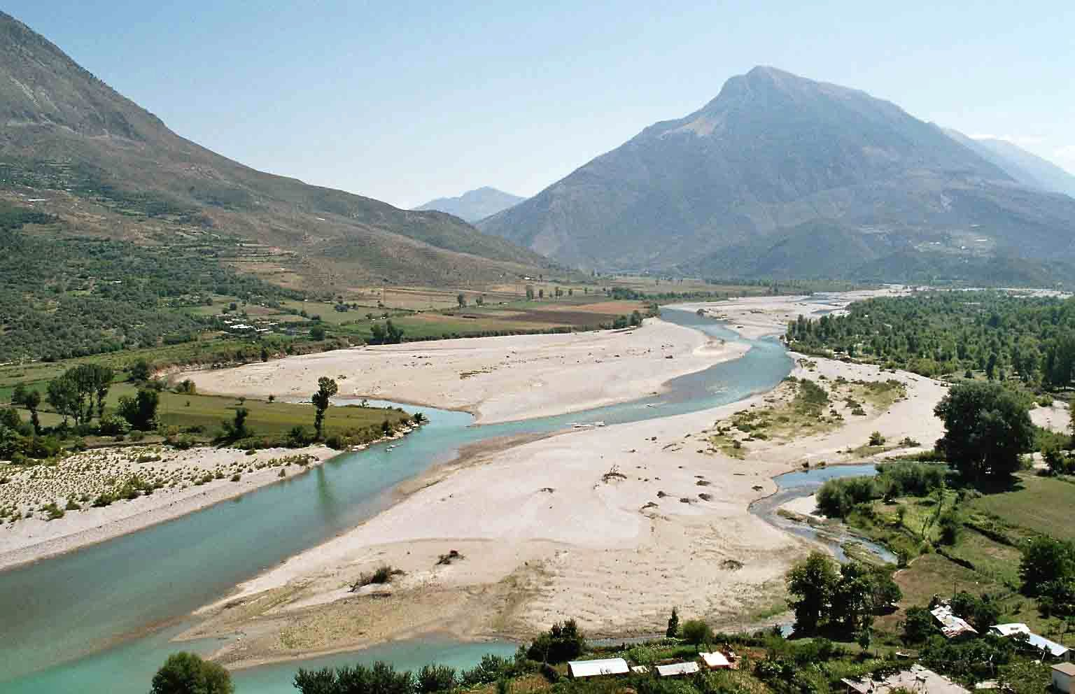 Vjosa river near Tepelena (Albania)